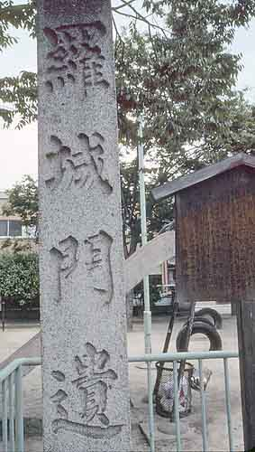 This marker shows the site of the former Rajōmon (Rashōmon), the great south gate to the city of Kyoto, Japan. I took the photo. Transferring from English Wikipedia Rashomon